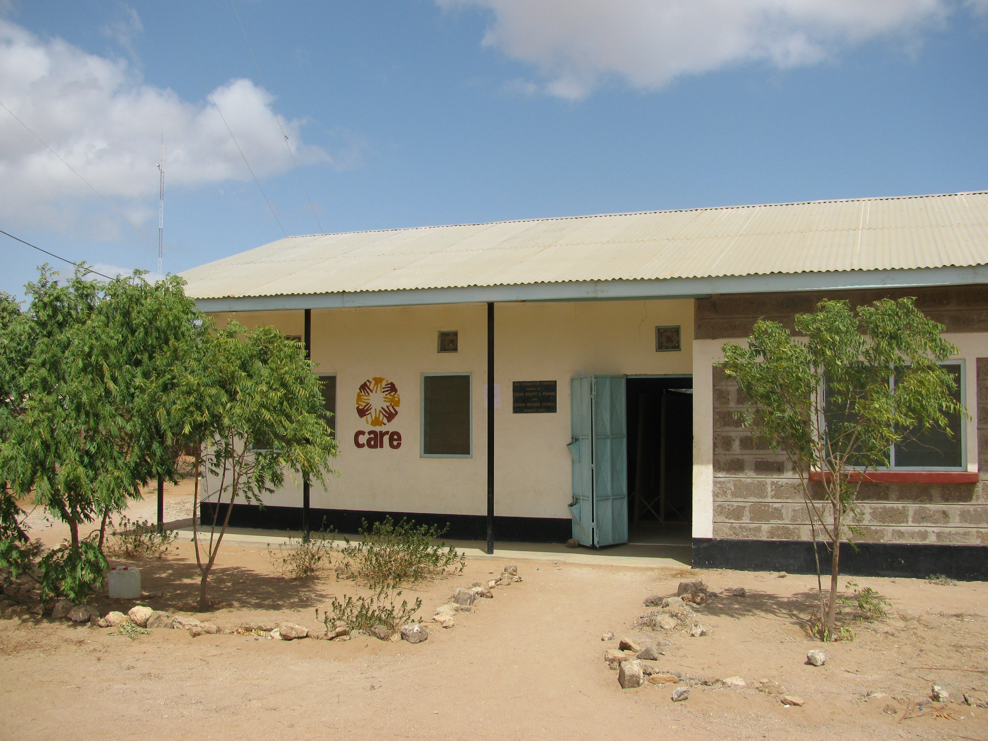 CARE Youth Center in Dadaab.